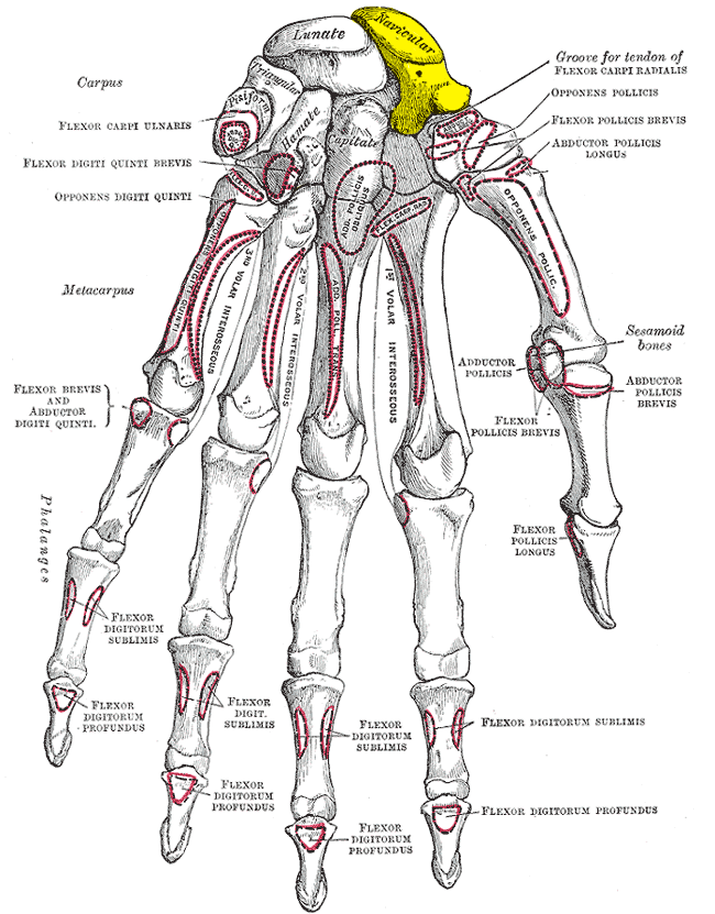 Bones of the left hand. Palmar surface.